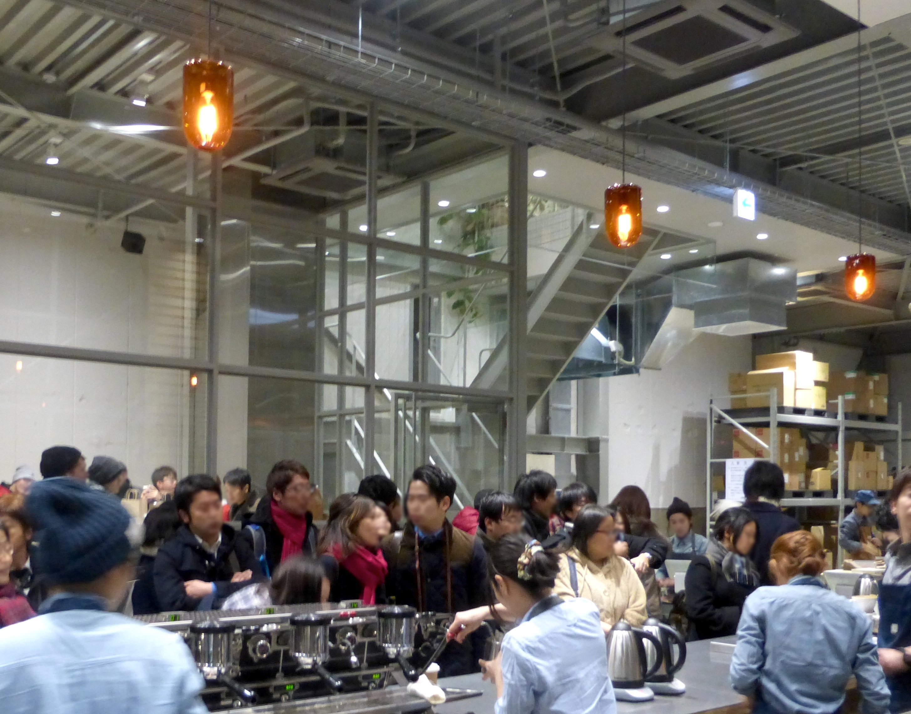 Blue Bottle Coffee Company's first shop in Japan (Kiyosumi-shirakawa)